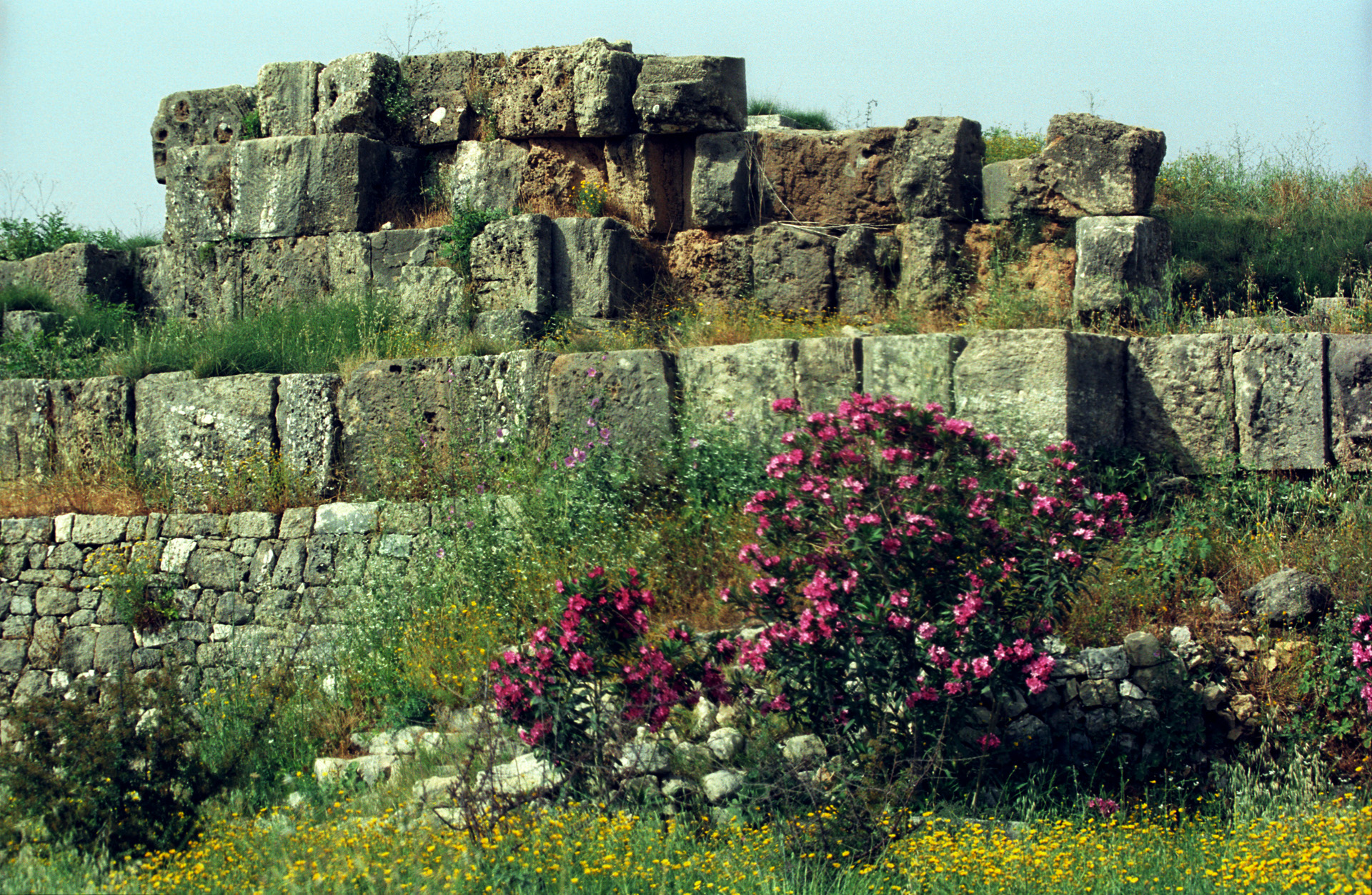 Byblos, Byblos, the persian castle